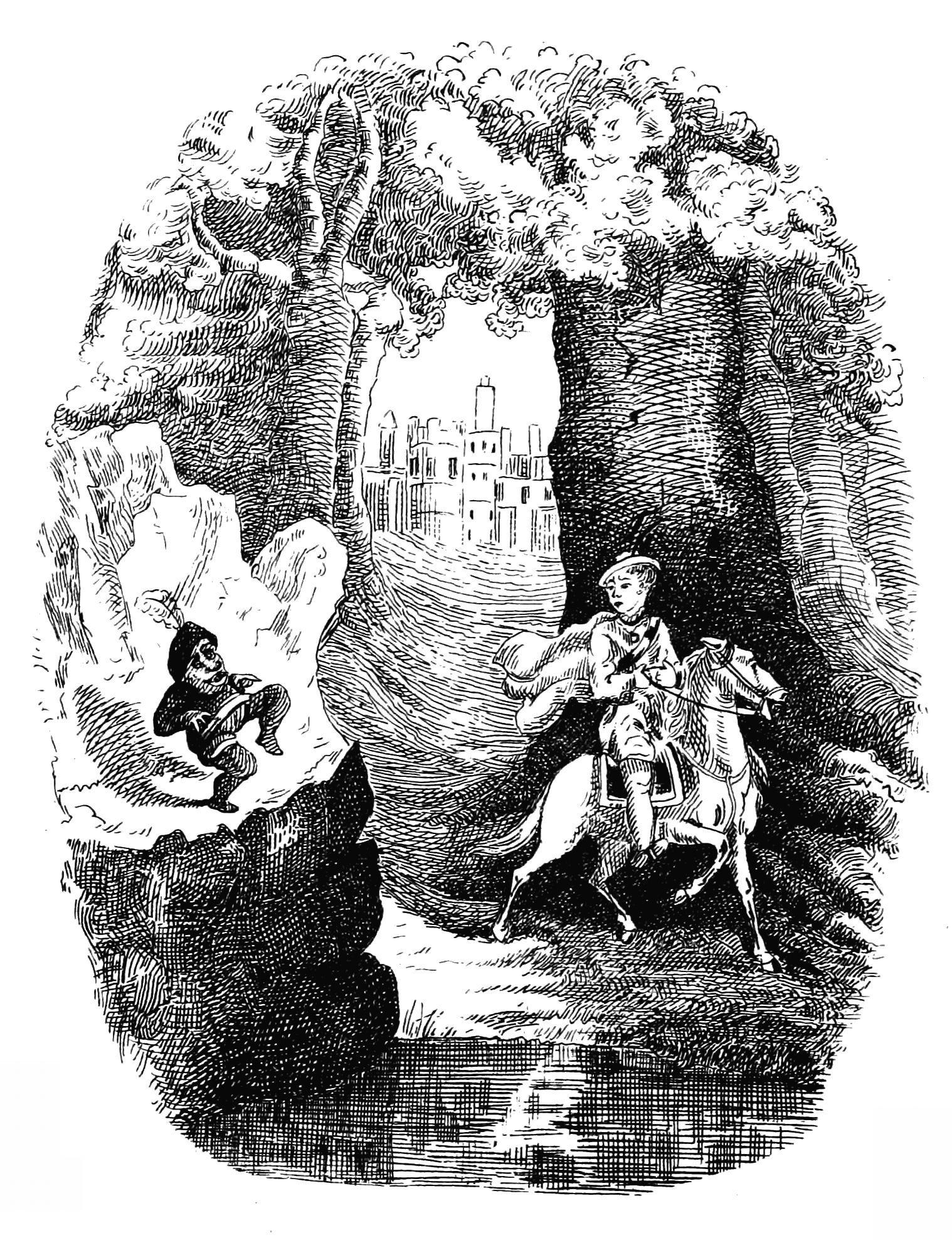 Illustration for a Grimm fairy tale